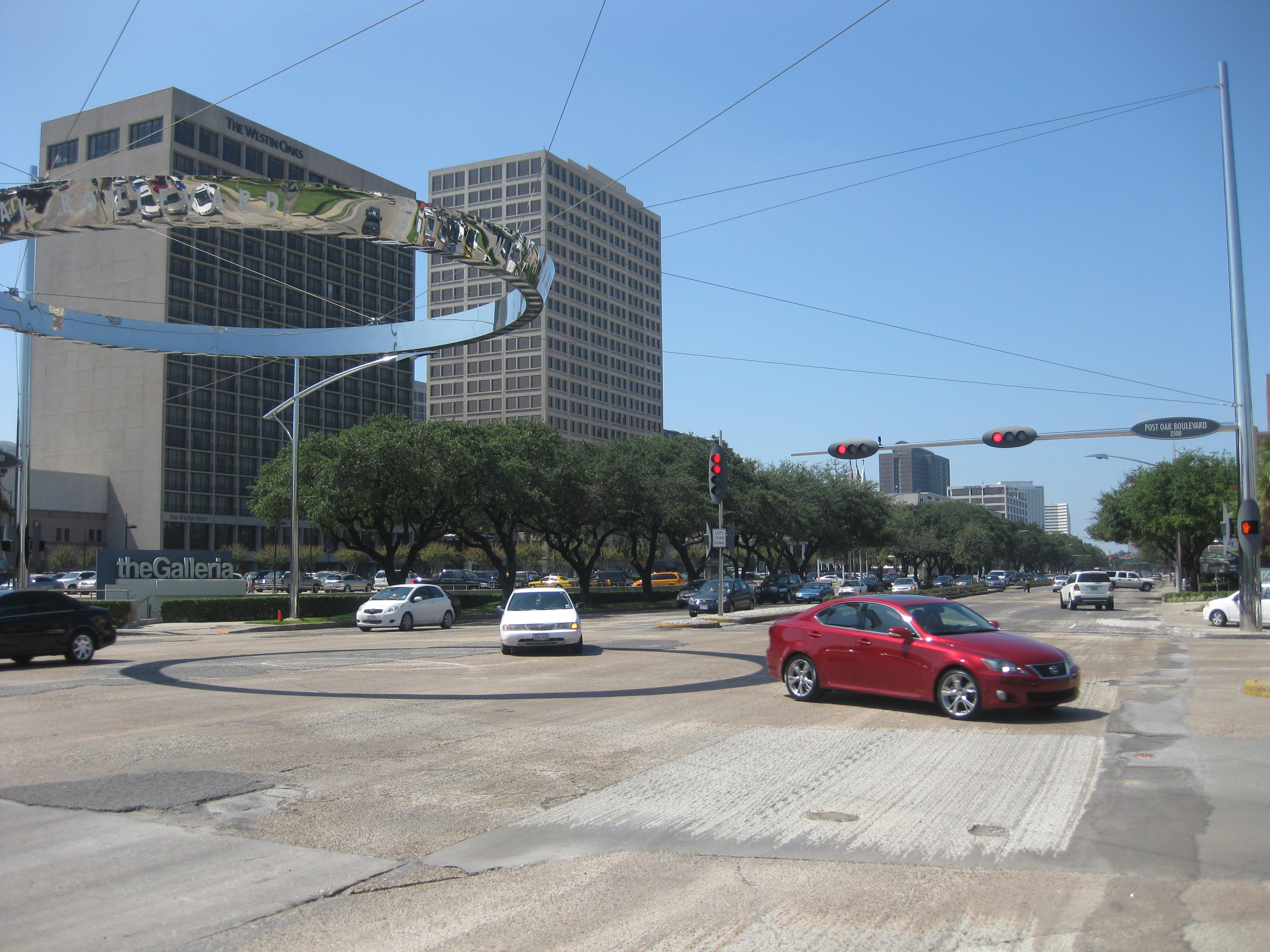 Intersection of Westheimer Road and Post Oak Blvd from the NE corner. The Galleria shopping center and a Westin Hotel are visible on the other side.